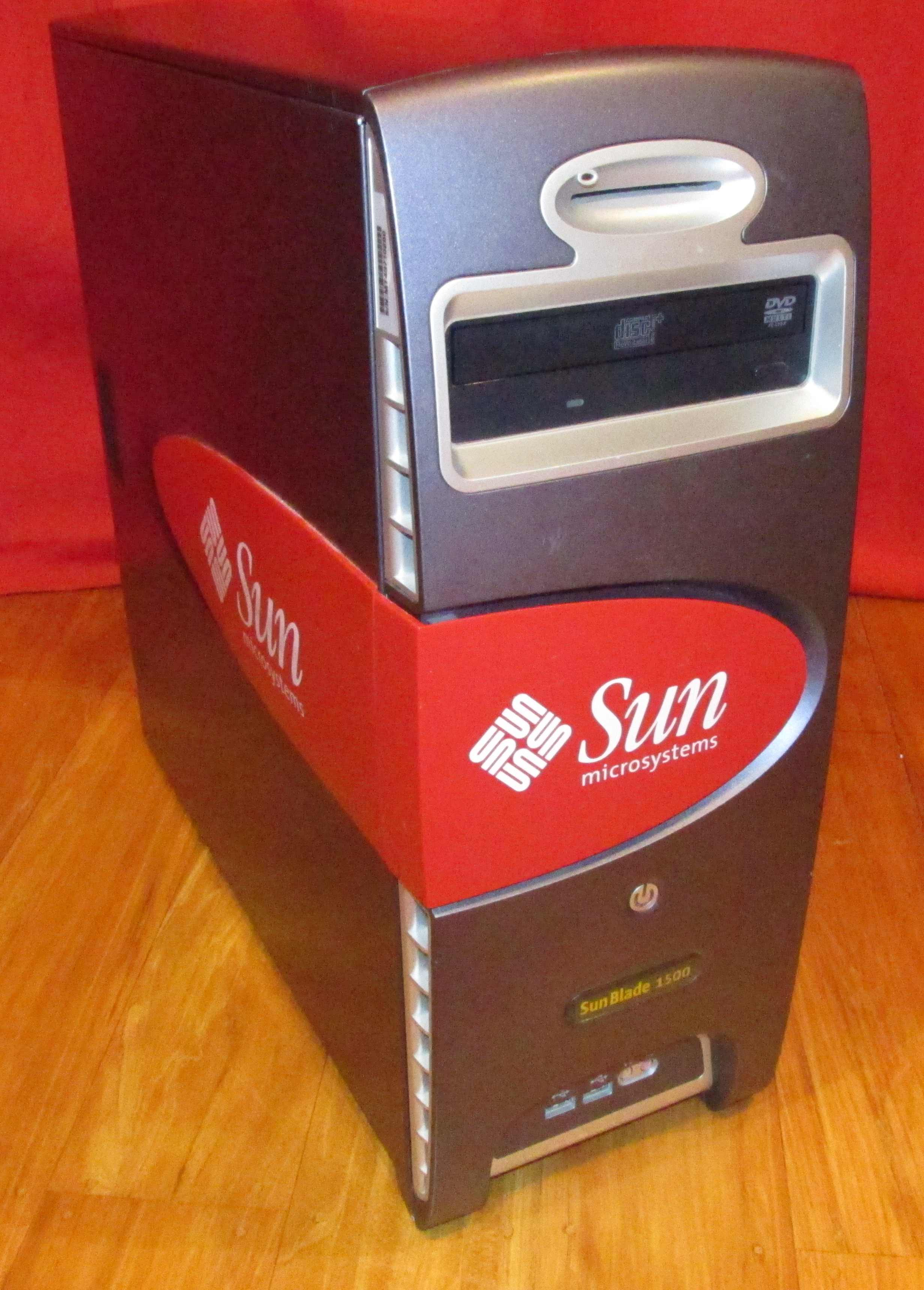 Sun microsystems SunBlade 1500 workstation.